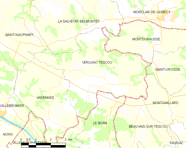 Map of French municipality Verlhac-Tescou